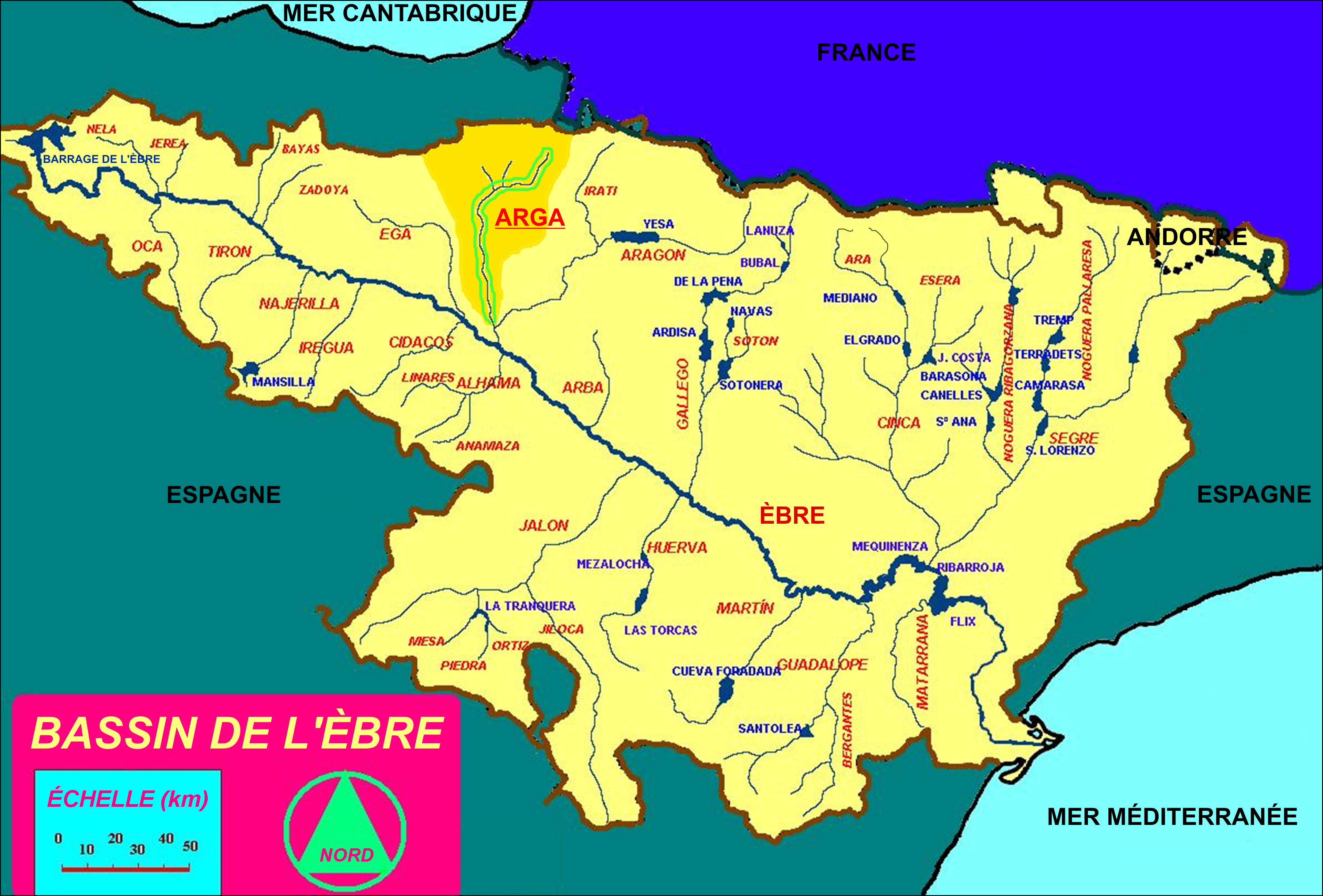 Watershed of the Arga river (Spain)